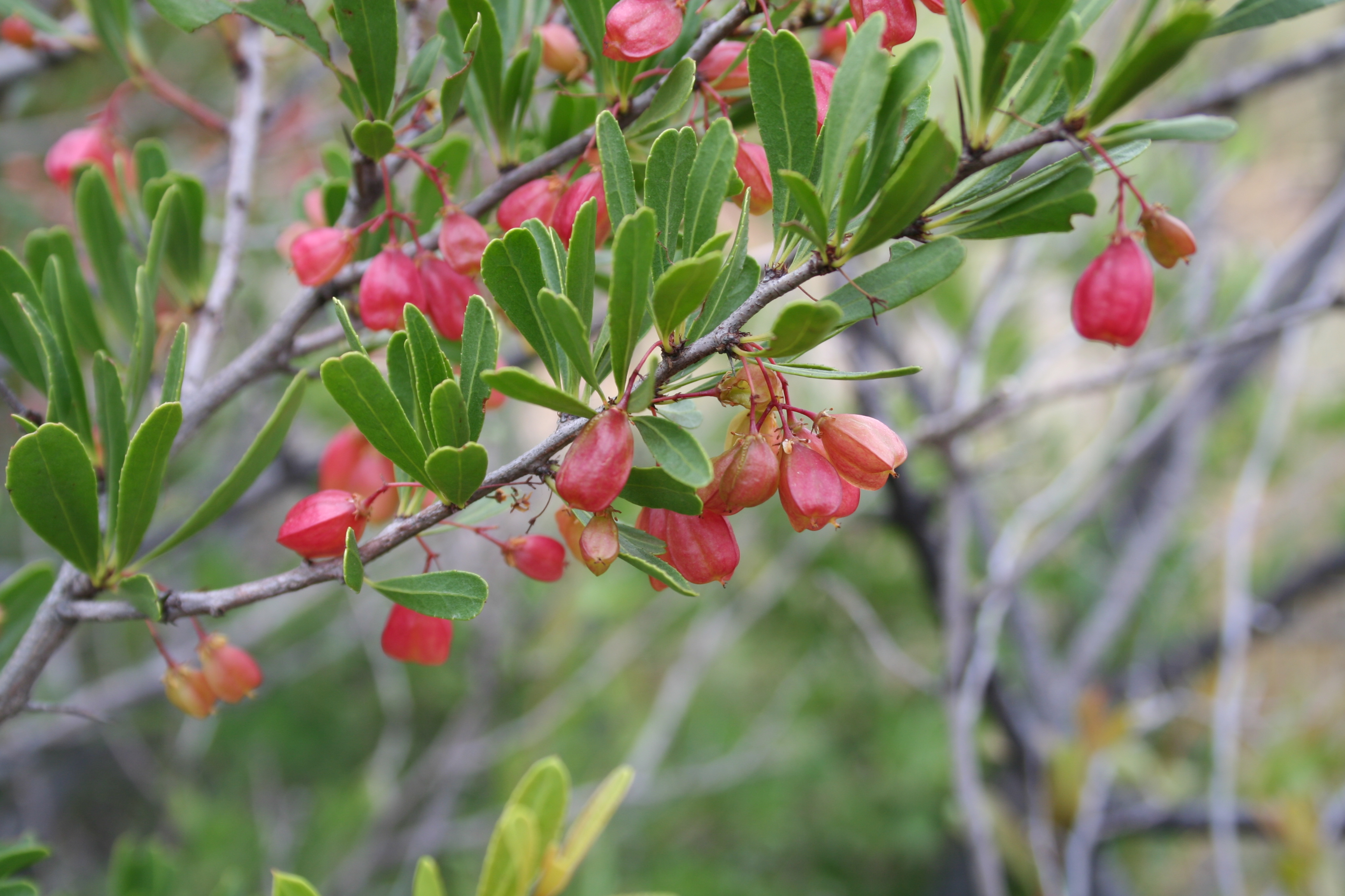 Gymnosporia tenuispina (syn. Maytenus tenuispina), Mountain Sanctuary Park, South Africa